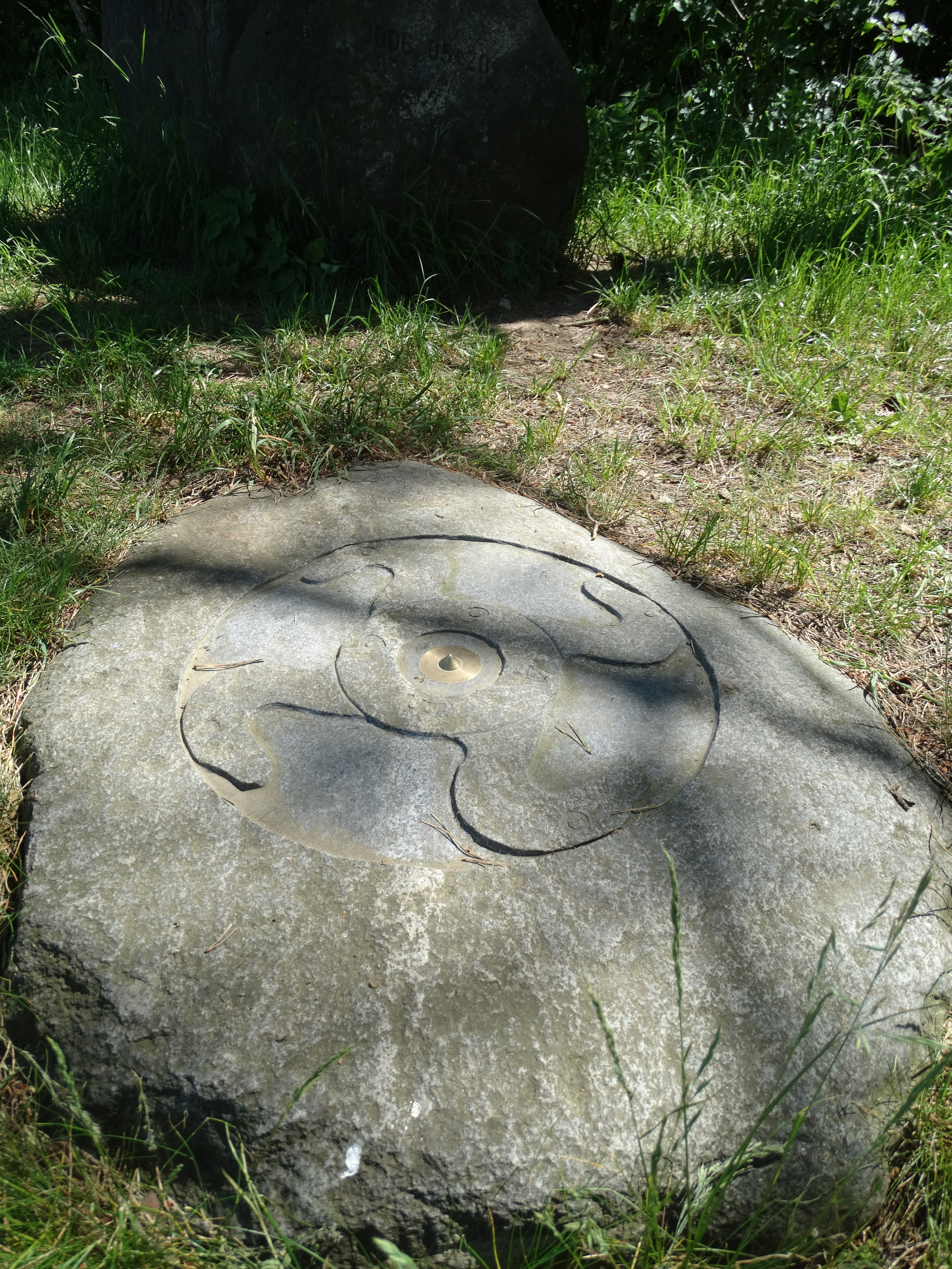 On the Aukštojas Hill, highest point, Juozapinė, Vilnius District, Lithuania